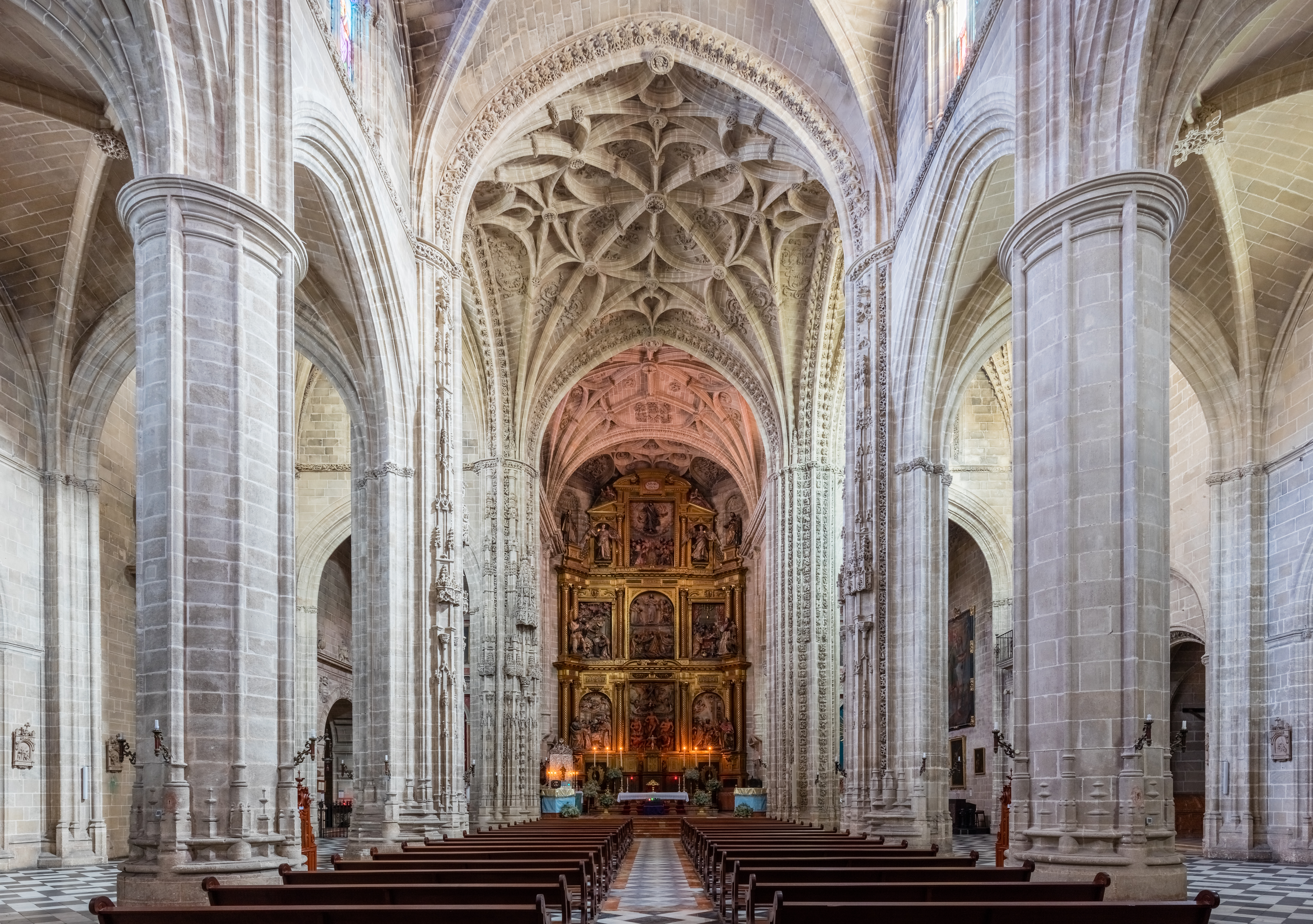 Central nave of the Church of San Miguel, Jerez de la Frontera, Spain. The church is composed of 3 naves, where the central nave is higher than the lateral ones, with pillars decorated with gothic motifs and very diverse baldachins, whereas the altar is a work from 1609 by Juan Martínez Montañés 1609. The construction of the church began in 1484 due to a visit of the Catholic Monarchs to Jerez de la Frontera, but it took several centuries to complete, resulting in a harmonious mixture of elements from the late Gothic, Renaissance and Baroque.